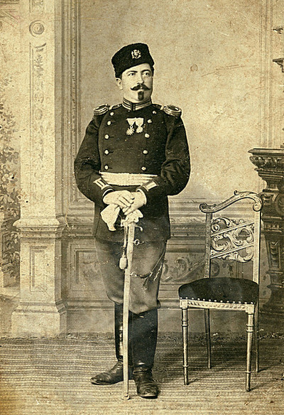 Iliya Bogdanov Atanasov